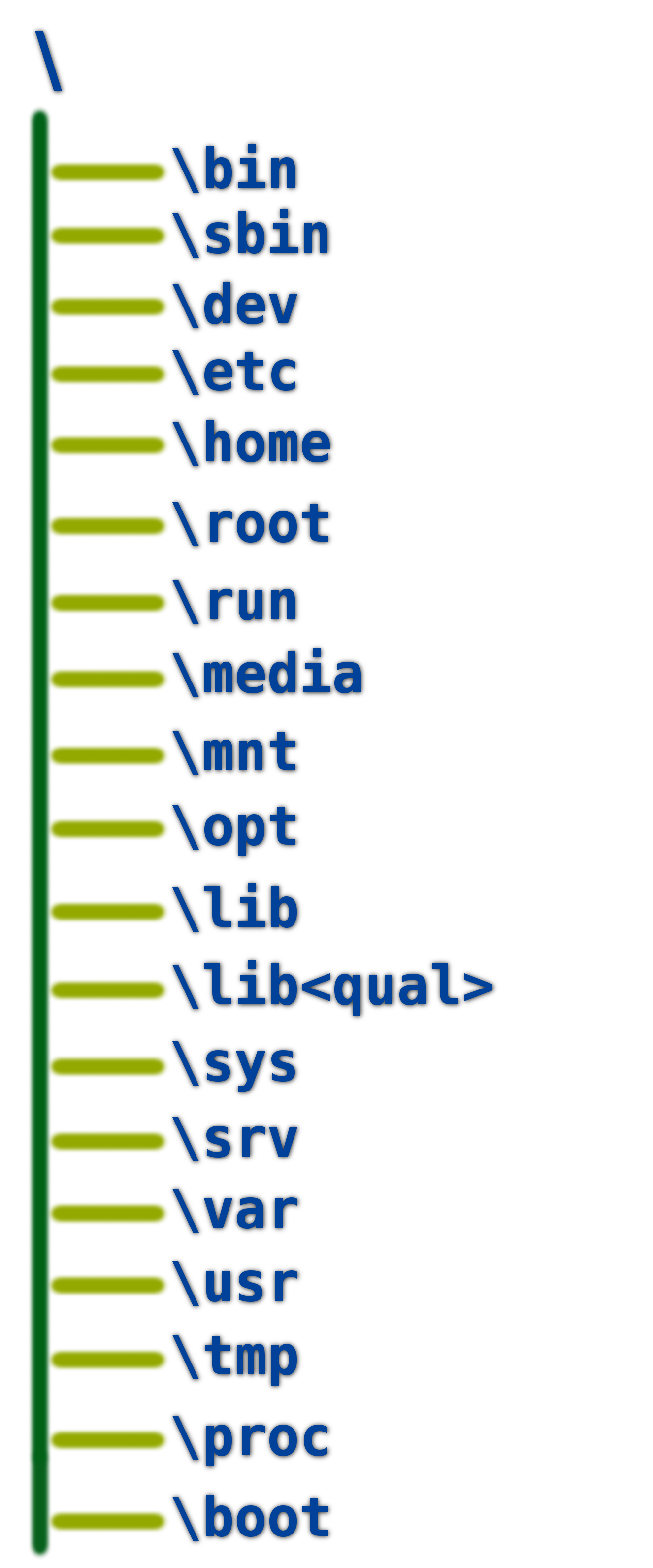 Linux Filesystem Hierarchy Standard(FHS)